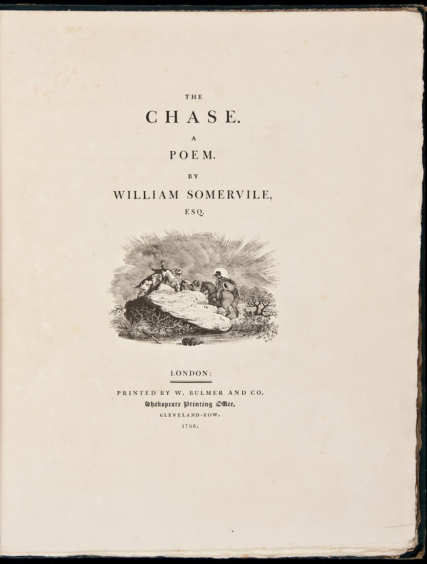 Title-page of "The Chase" by William Sommerville, printed in 1796 by William Bulmer. The engravings for this book were made by Thomas Bewick.